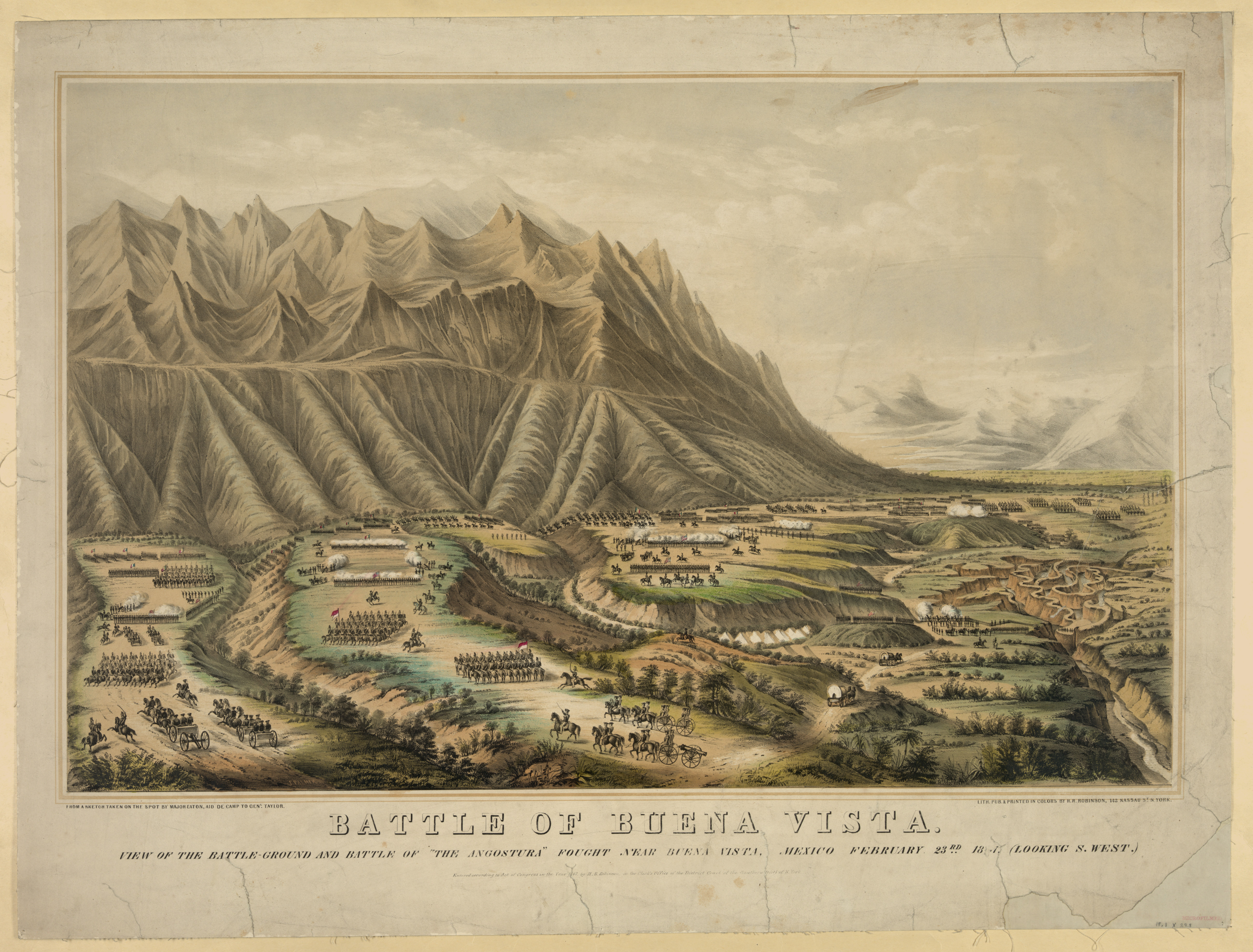 Title: Battle of Buena Vista Physical description: 1 print. Notes: "Copyright Deposit, Southern District of N.Y.: 1847."; Associated name on shelflist card: Robinson, H.R.; This record contains unverified data from PGA shelflist card.; Published in: Viewpoints; a selection from the pictorial collections of the Library of Congress .... Washington : Library of Congress ..., 1975, no. 69.